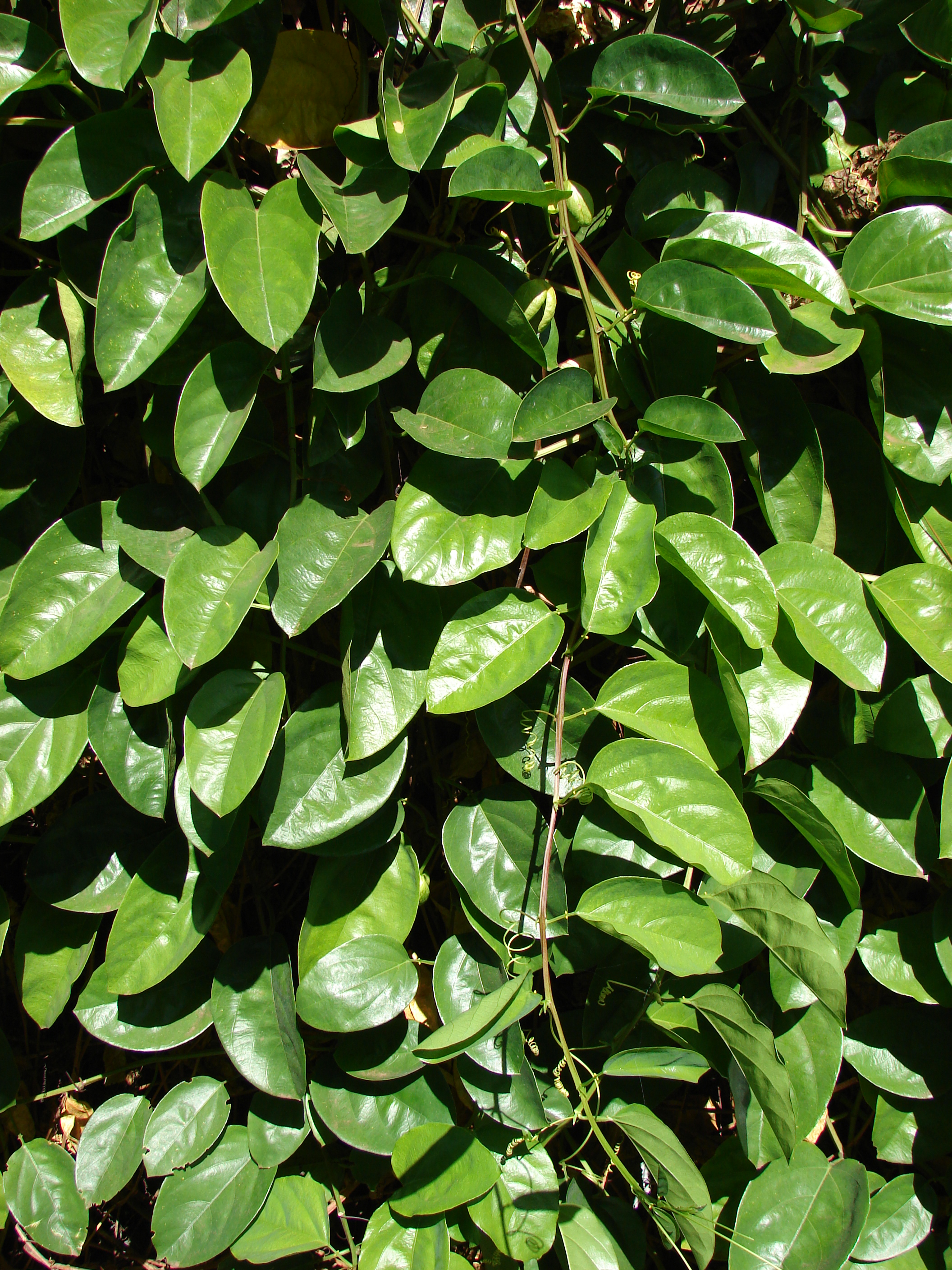 Passiflora quadrangularis (leaves). Location: Maui, Enchanting Floral Gardens of Kula